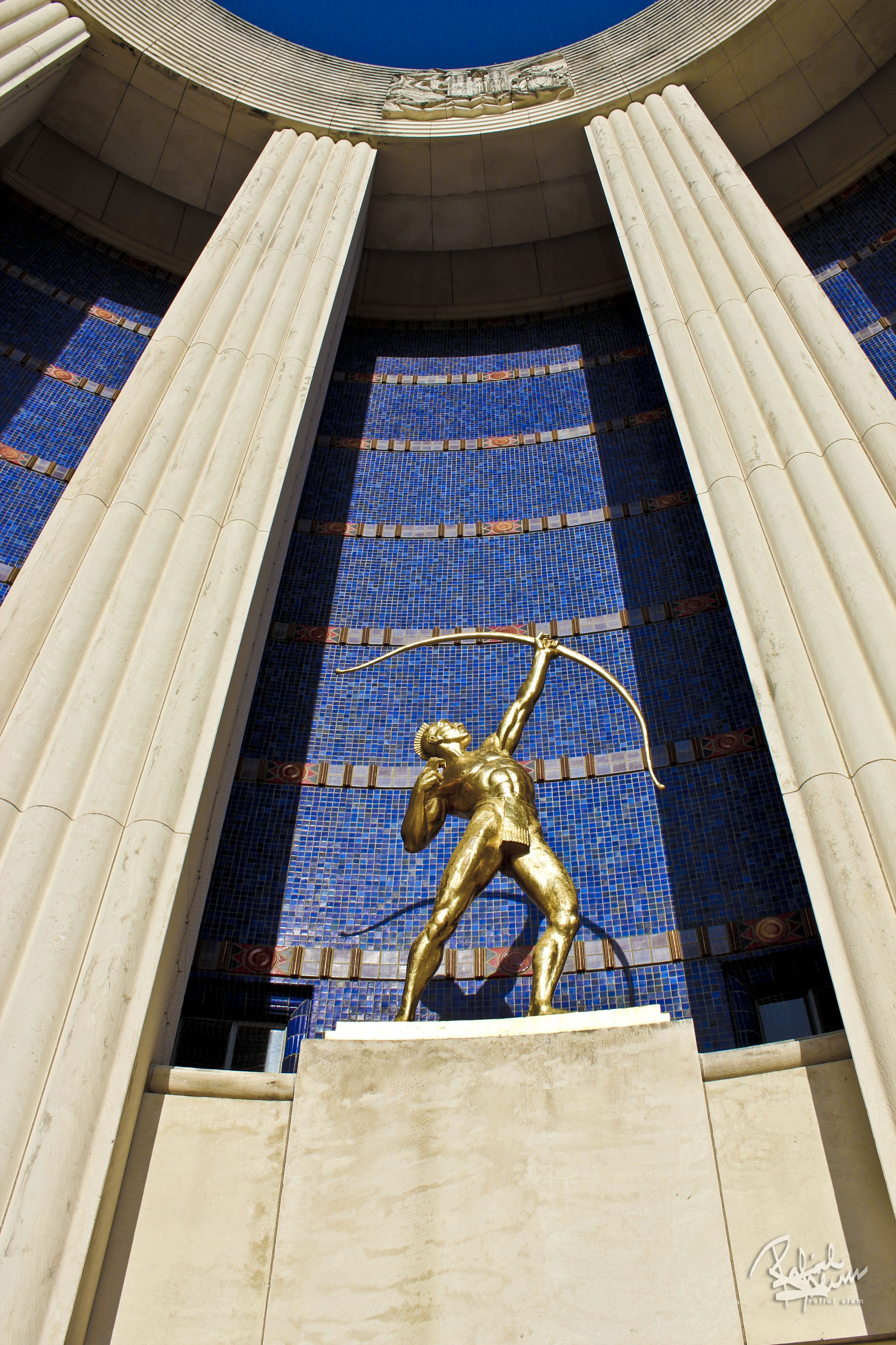 Texas Centennial Exposition Buildings (1936-1937)